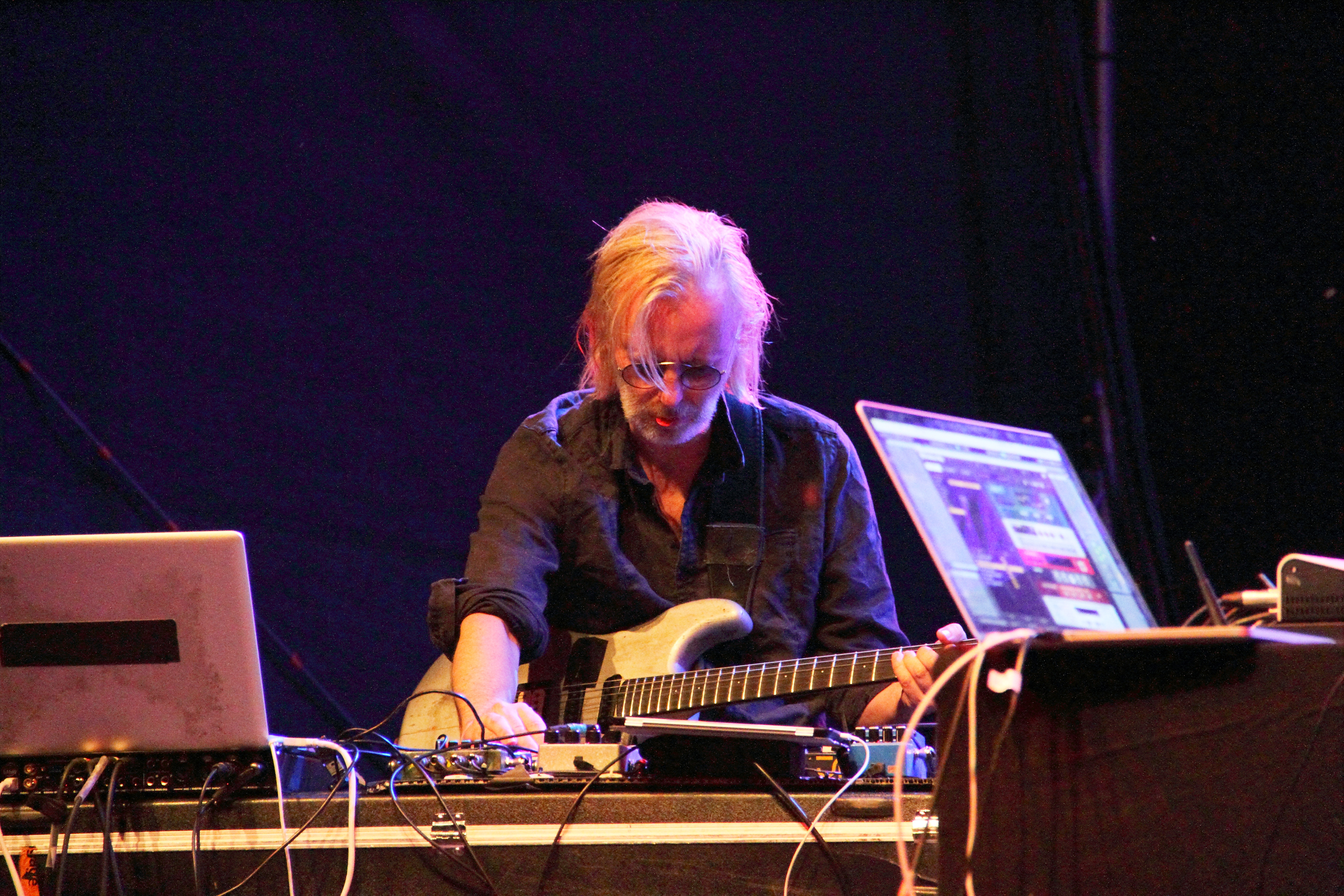 Eivind Aarset in concert with Sly (Dunbar) & Robbie (Shakespeare) and Nils Petter Molvær at TFF Rudolstadt 2015.